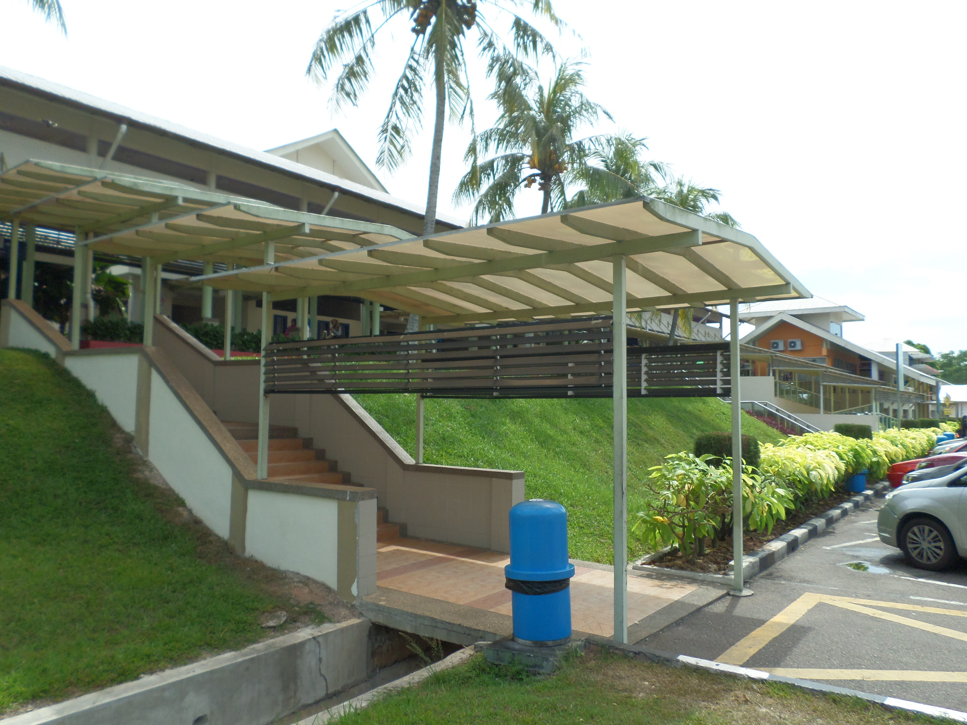 Machap Rest Area (Northbound), Machap, Kluang, Johor, Malaysia